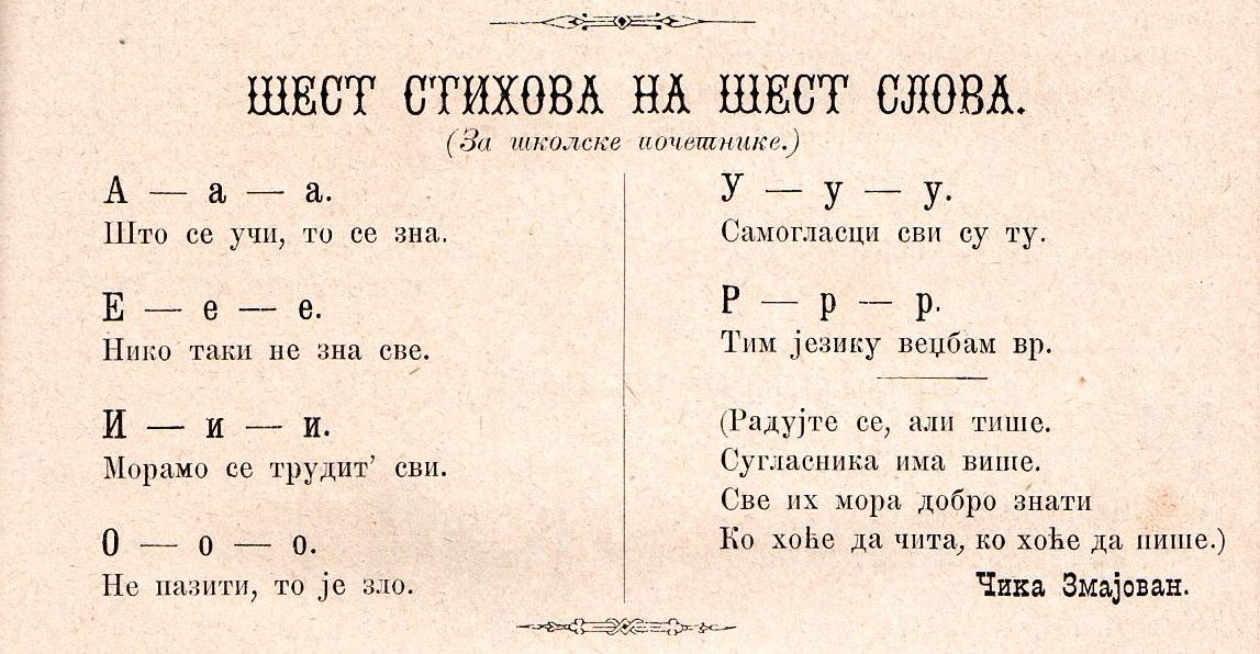 Neven, childrens magazine in Serbia, number 9, 1887